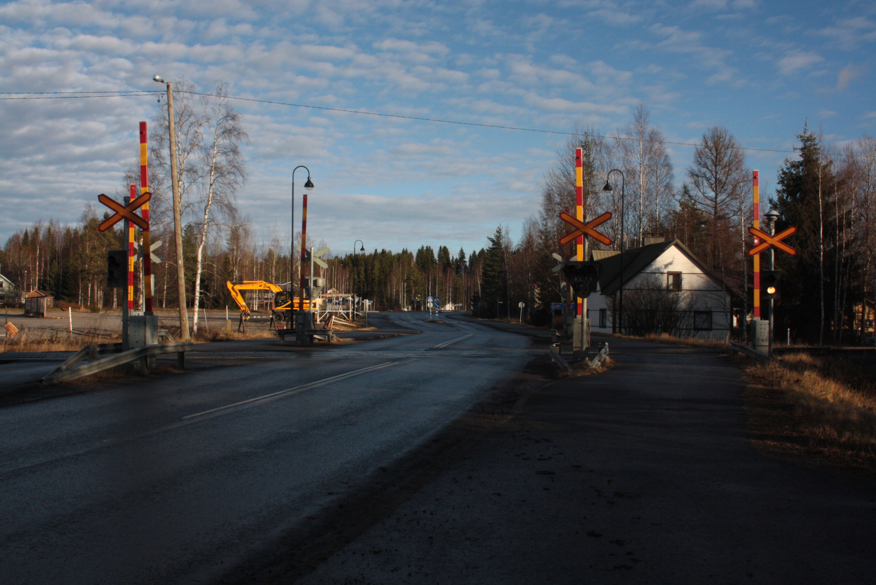 Finnish national road 18 at Tuuri as. level crossing in Alavus. Here the national road is crossed by Haapamäki-Seinäjoki line.